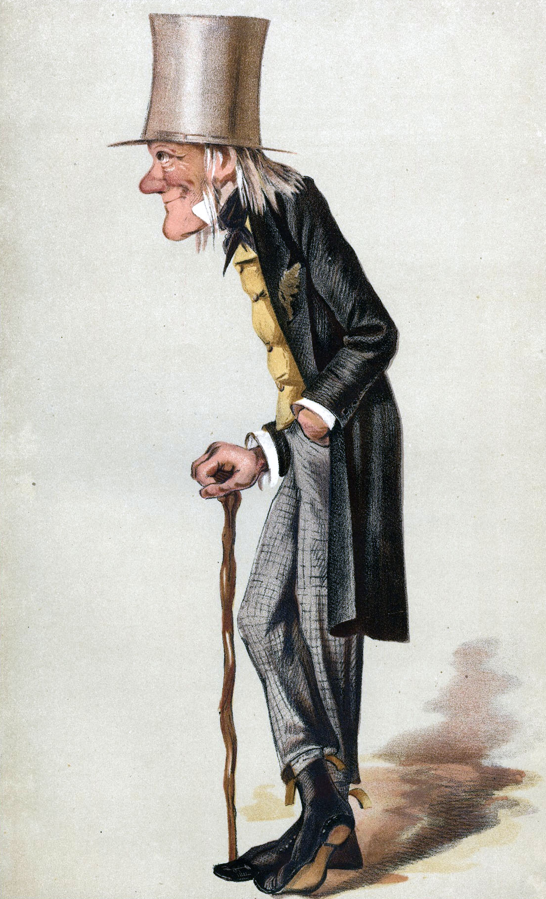 Caricature of Richard Owen (1804-1892) - "Old Bones".